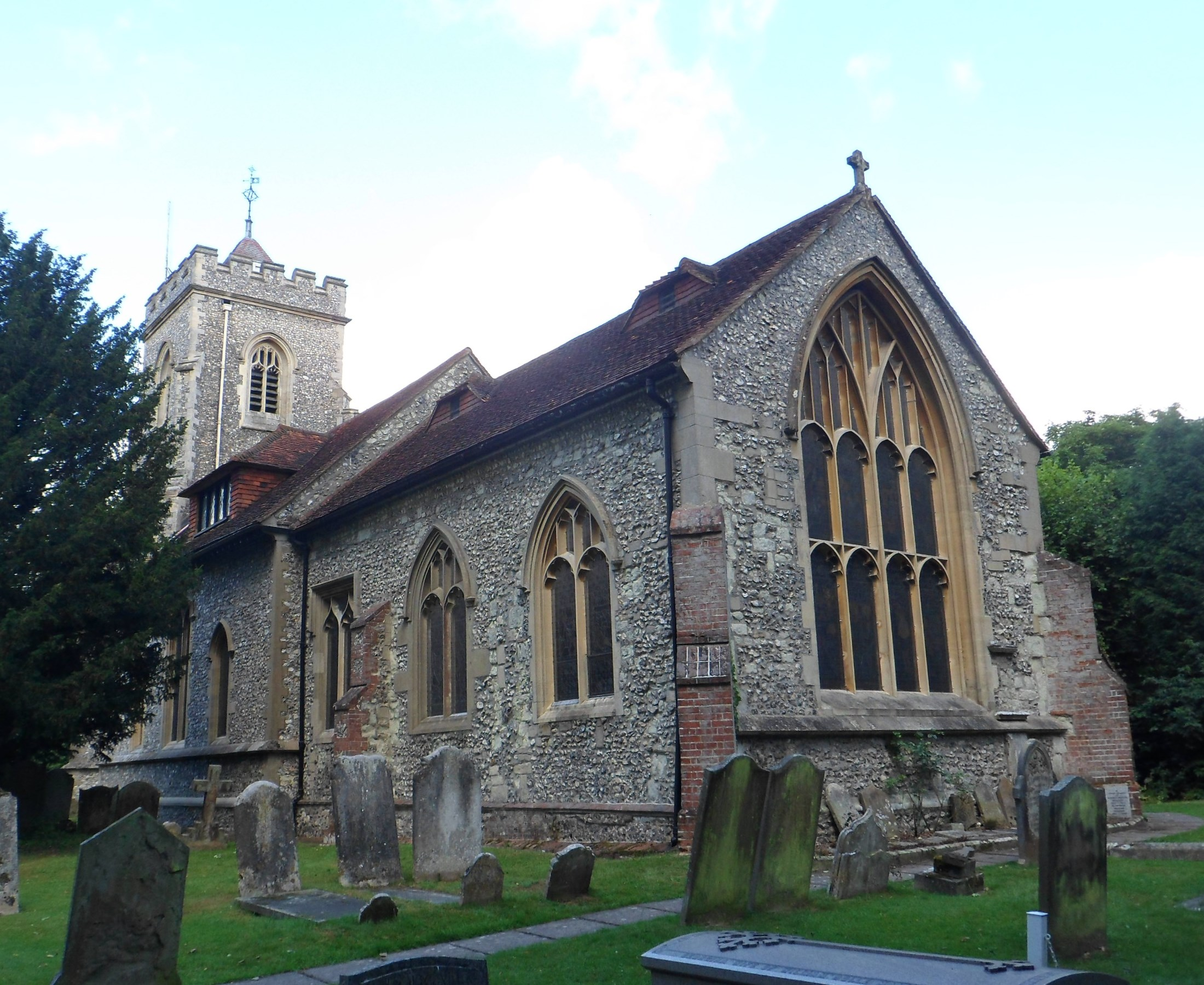 St Peter's Church, Breech Lane, Walton-on-the-Hill, Reigate and Banstead District, Surrey, England. The parish church of Walton-on-the-Hill. Listed at Grade II* by English Heritage (NHLE Code 1377991)